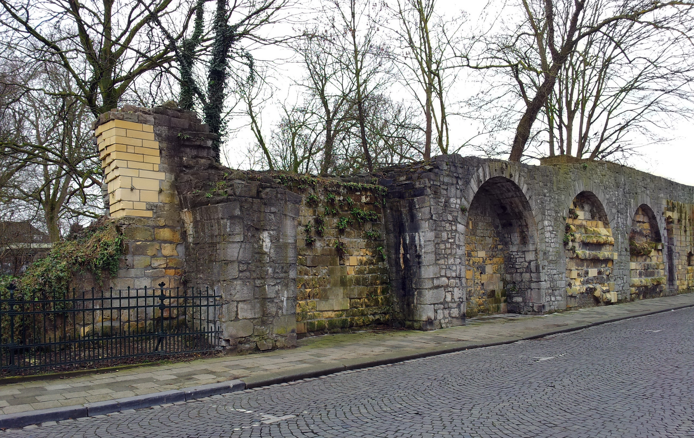 Maastricht, the Netherlands. View of Nieuwenhofwal, part of the second Medieval city wall of Maastricht, along Nieuwenhofstraat in Jekerkwartier.